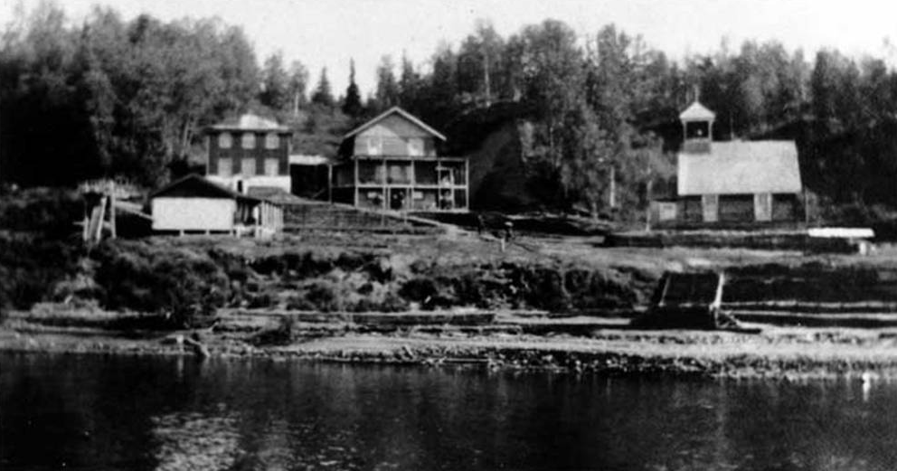 The Christian mission at Anvik, Alaska. The mission has undergone a number of changes (including relocation and alteration of the church) since this photo was taken.